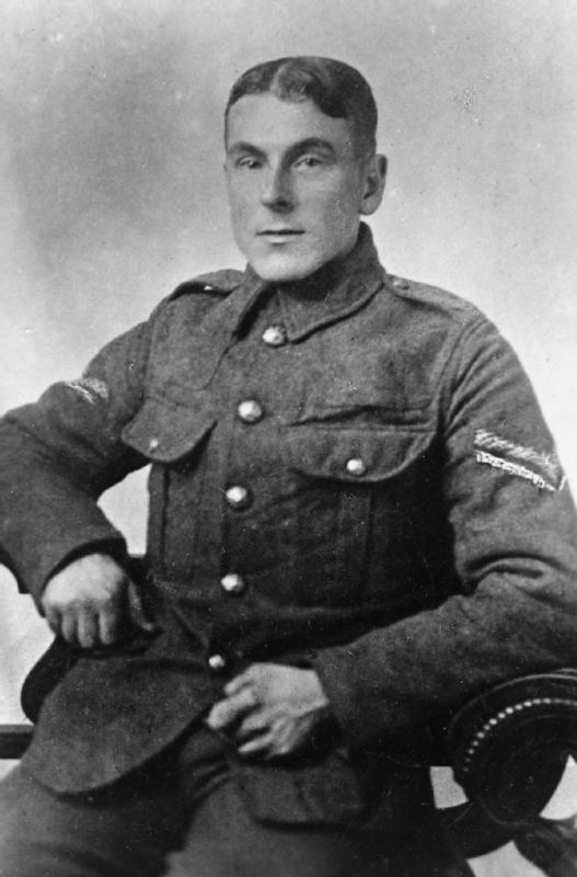 2 Battalion (attached 1 Battalion), Devonshire Regiment Corporal May served nearly 10 years with the Devonshire Regiment, prior to being killed, aged 30, at Morval during the Battle of the Somme on 26 September 1916. He was buried at Ginchy and is commemorated on the Thiepval Memorial. Faces of the First World War Find out more about this First World War Centenary project at This image is from IWM Collections.